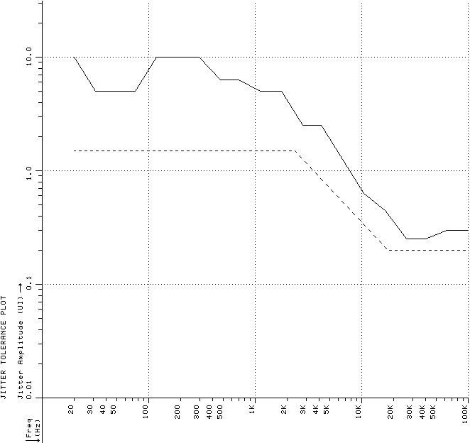 The measurement of the Maximum Tolerable Jitter (MTJ) for a receiver of PDH analiser (Wandell&Golterman PF140) for PCM unframed 2Mb signal (input: unbalanced 75 ohm, code: HDB3, pattern: PRBS15INV, G823 mask: 2 Mb/s, LOW Q).